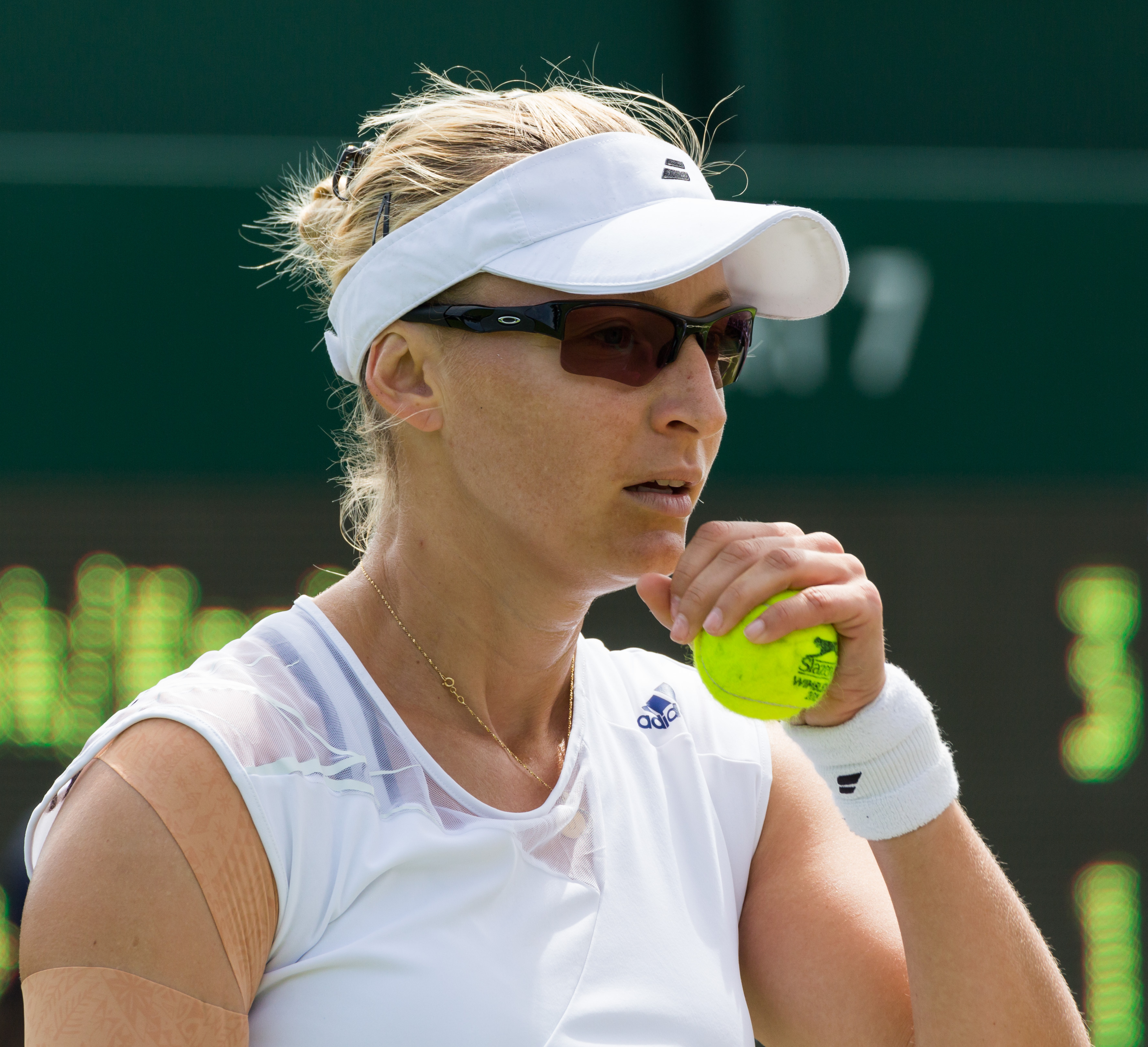 Mirjana Lucic-Baroni competing in the first round of the 2015 Wimbledon Championships.